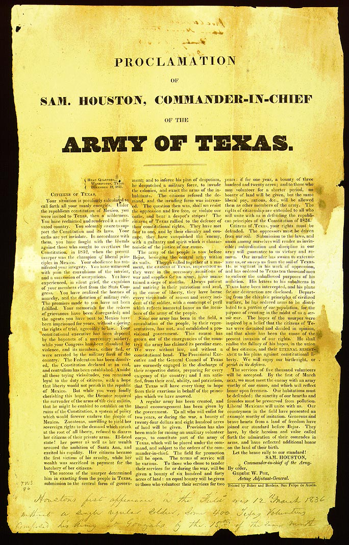 Sam Houston Dec 12, 1835 recruitment proclamation as Commander in Chief of the new paid Army of Texas